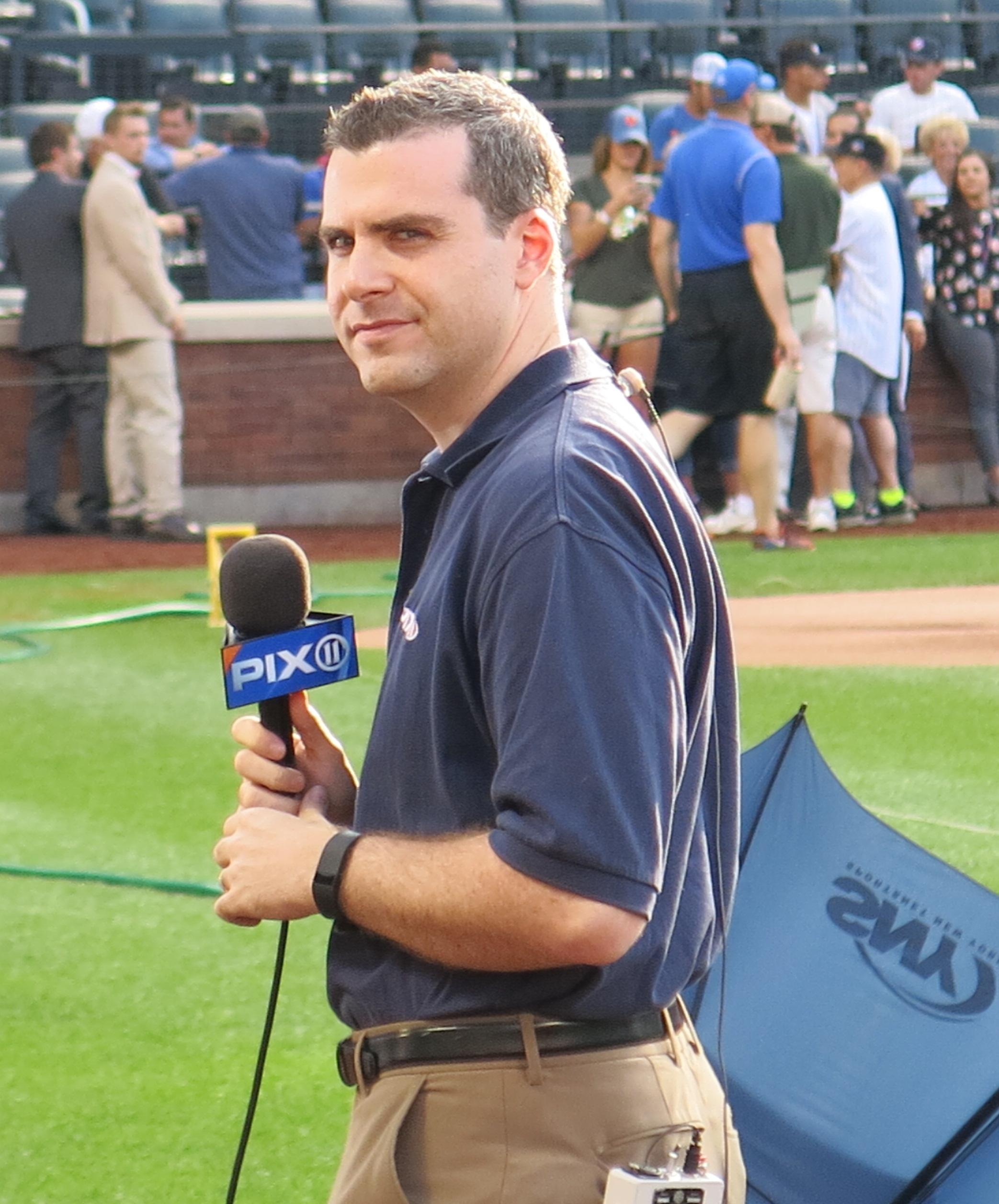 Steve Gelbs on August 2, 2016.